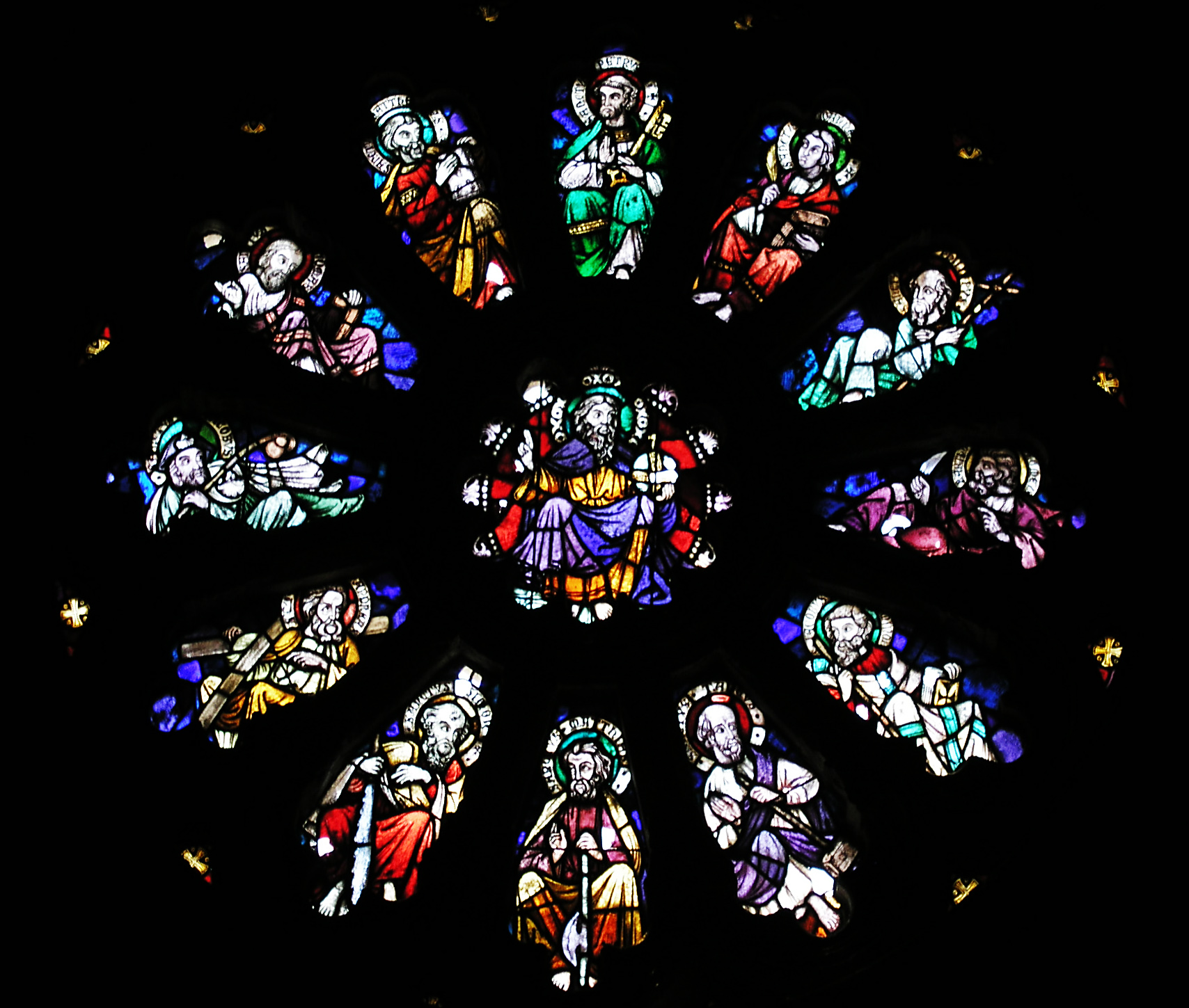 Principal church in Barcelos, Portugal.